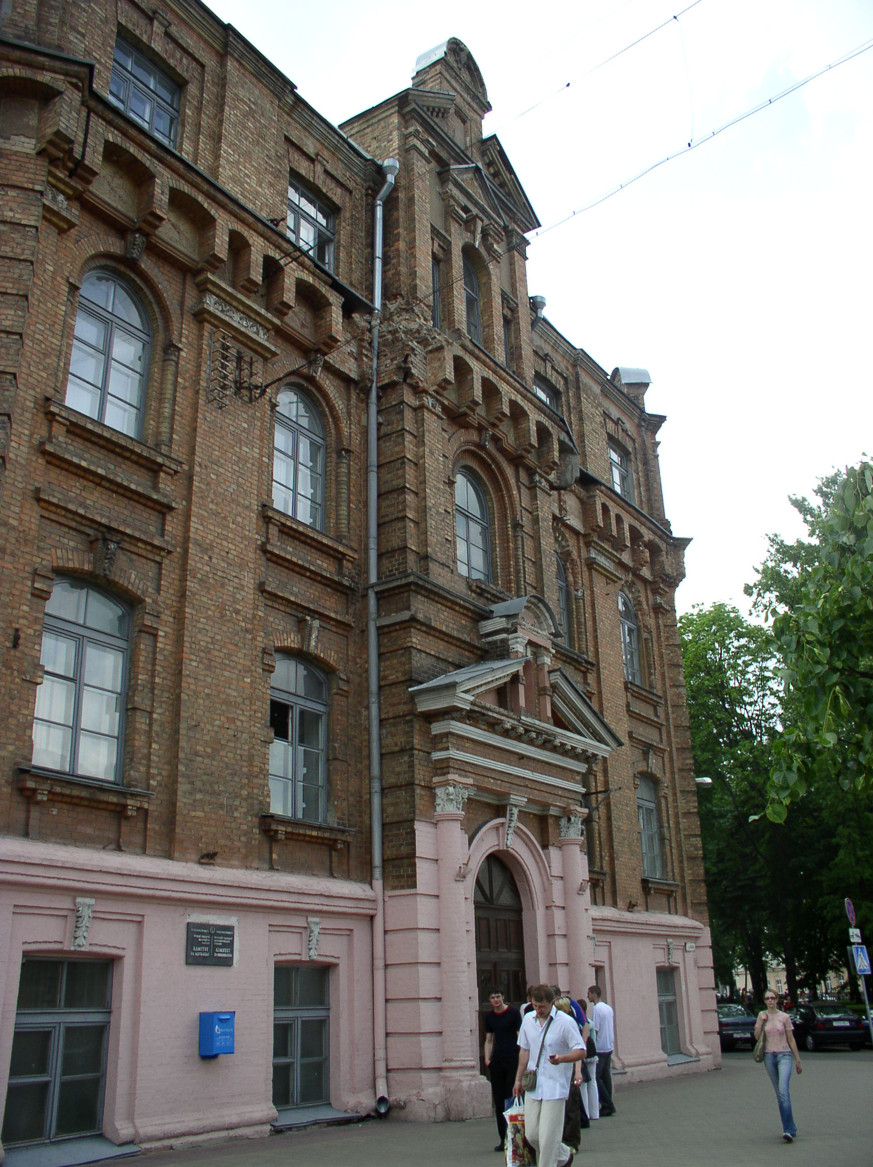 Women gymnasium. Minsk, Belarus.